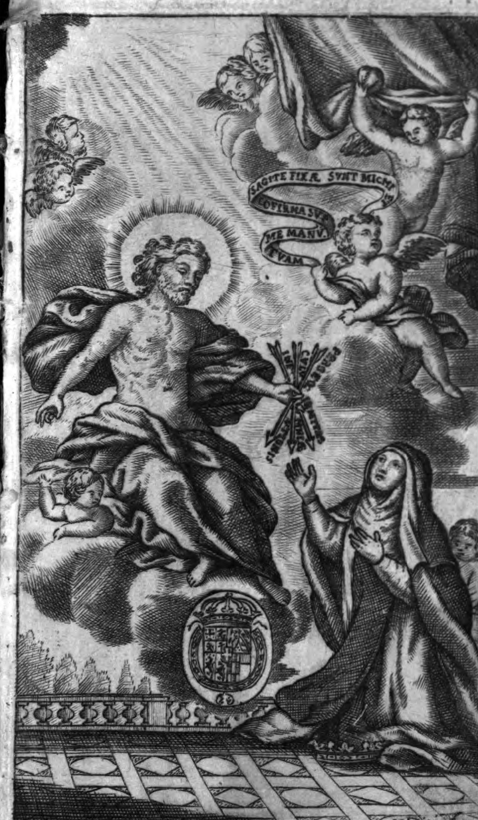 Image of the Beata Margherita di Savoia-Acaia, Marchesa di Monferrato, being offered three arrows by Christ. The coat of arms is that of the House of Savoy at the time the book was printed, rather than one used in Margherita’s time.